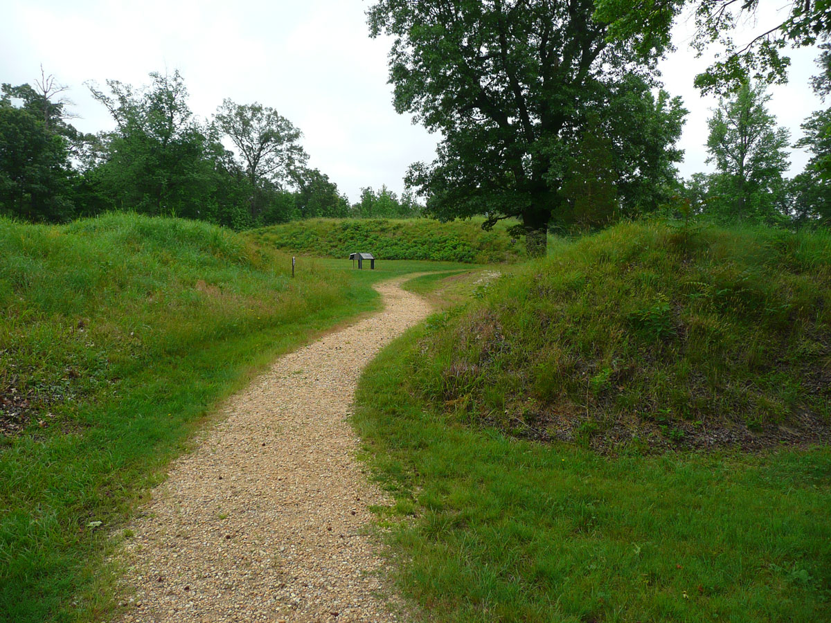 Photograph of the interior of Fort Harrison, Virginia.